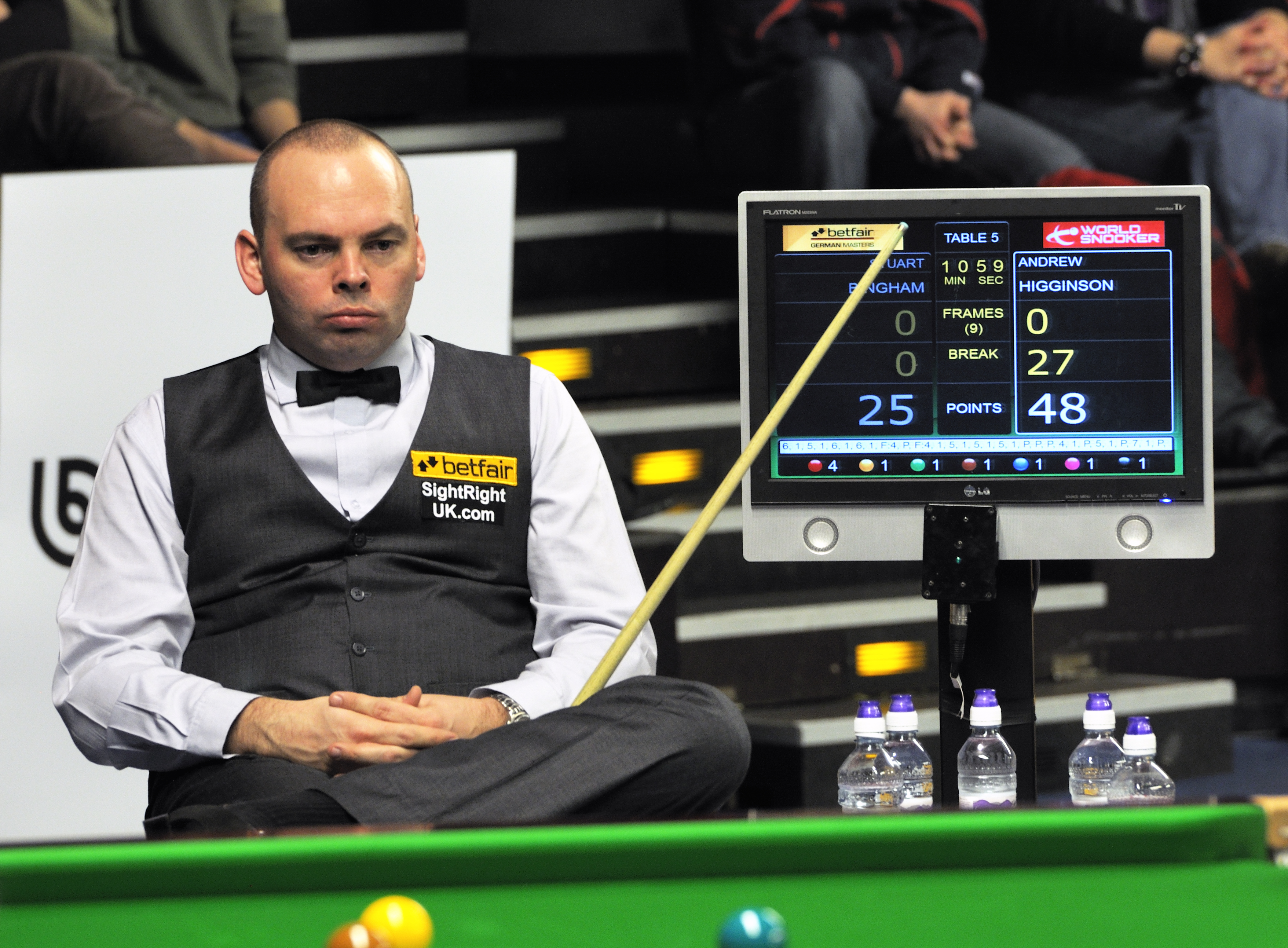 Picture taken in Berlin during the Snooker German Masters in 2013. Stuart Bingham.